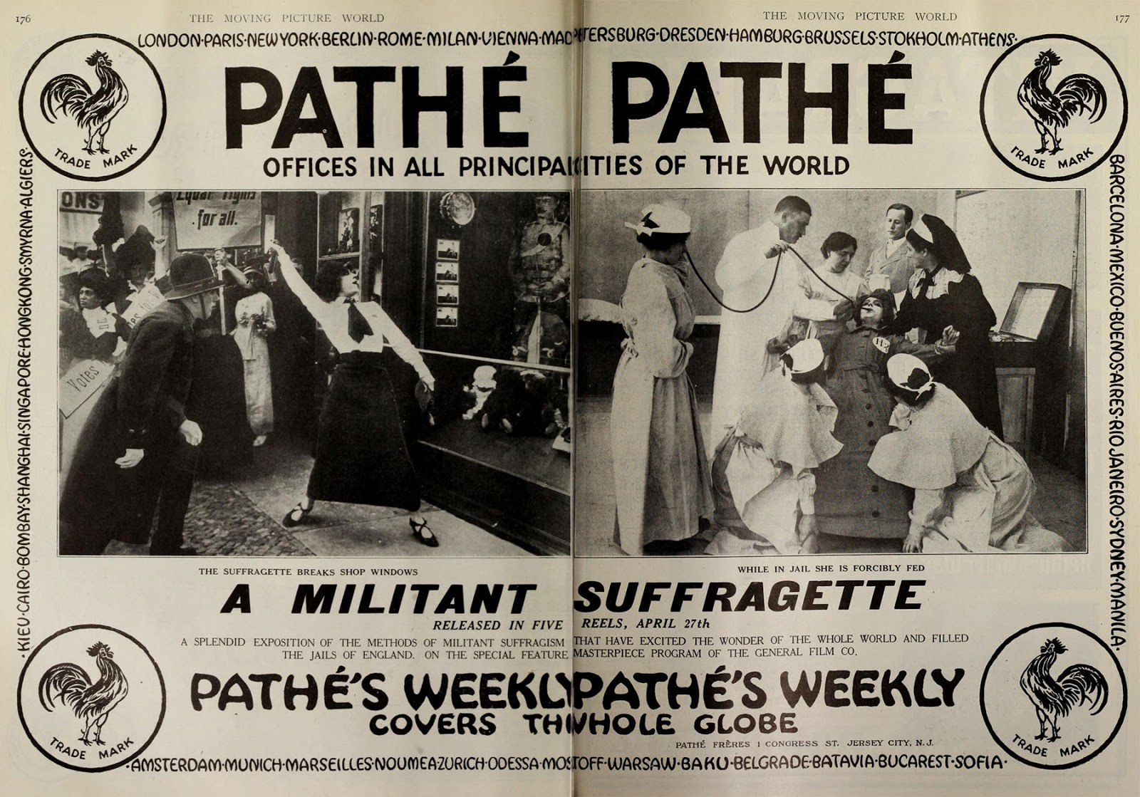 1914 advertisement for the film "A Militant Suffragette"